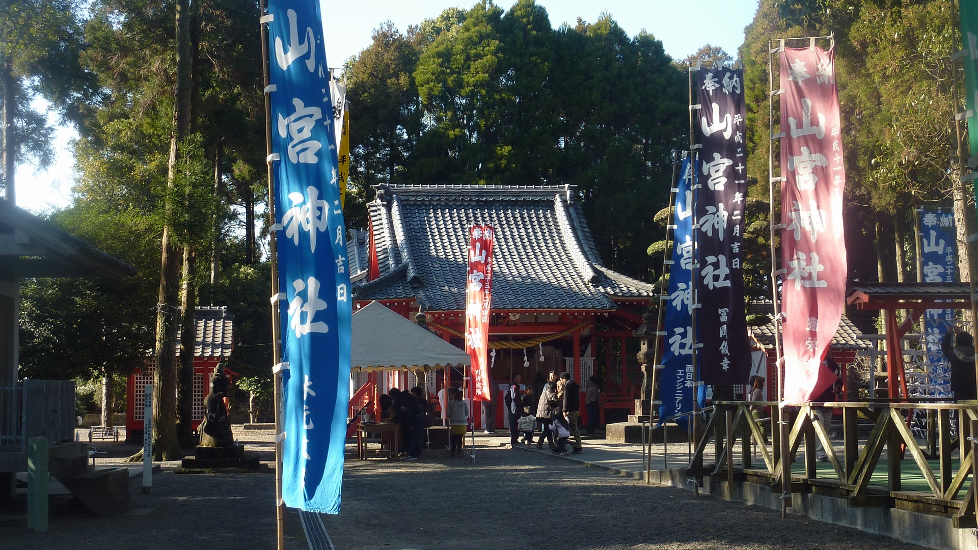 Yamamiya Shrine (Anraku, Shibushi City, Kagoshima, Japan)